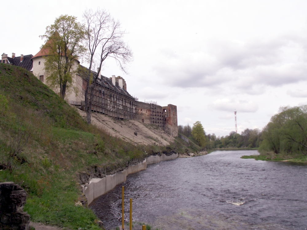 Bauska Castle